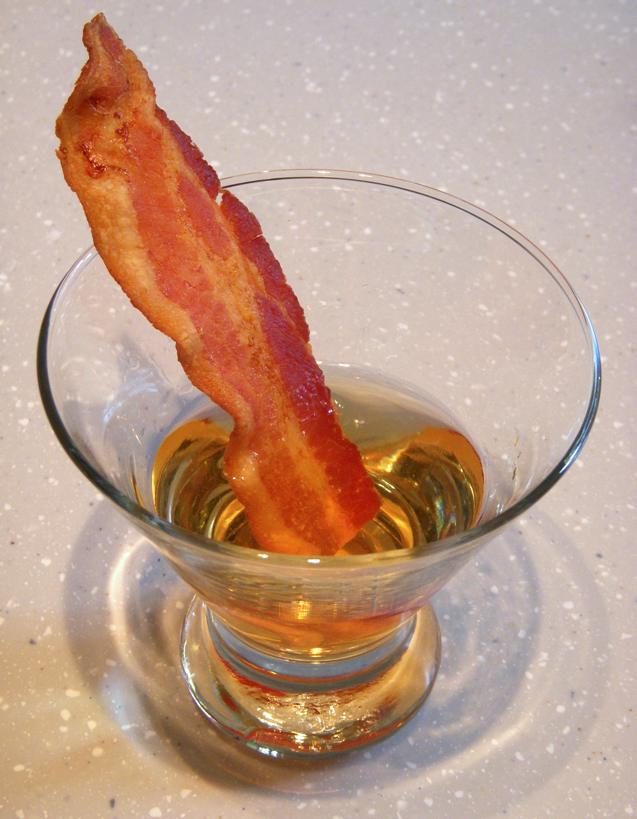 A Mitch Morgan; that is, a shot of bourbon with a strip of bacon as garnish.